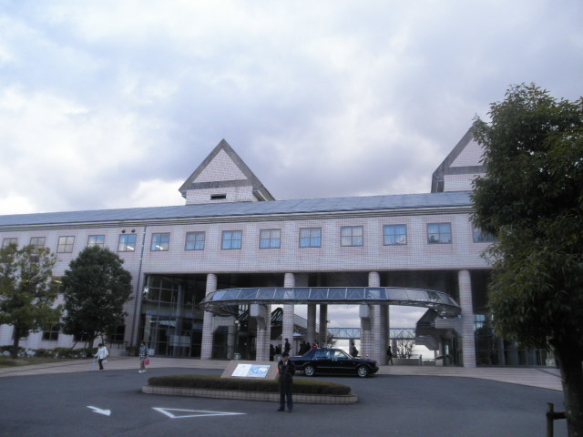 Nara University